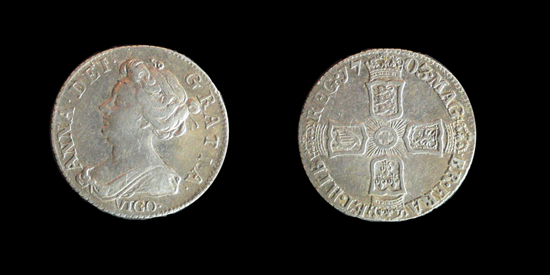 English coin of Queen Anne, 1703